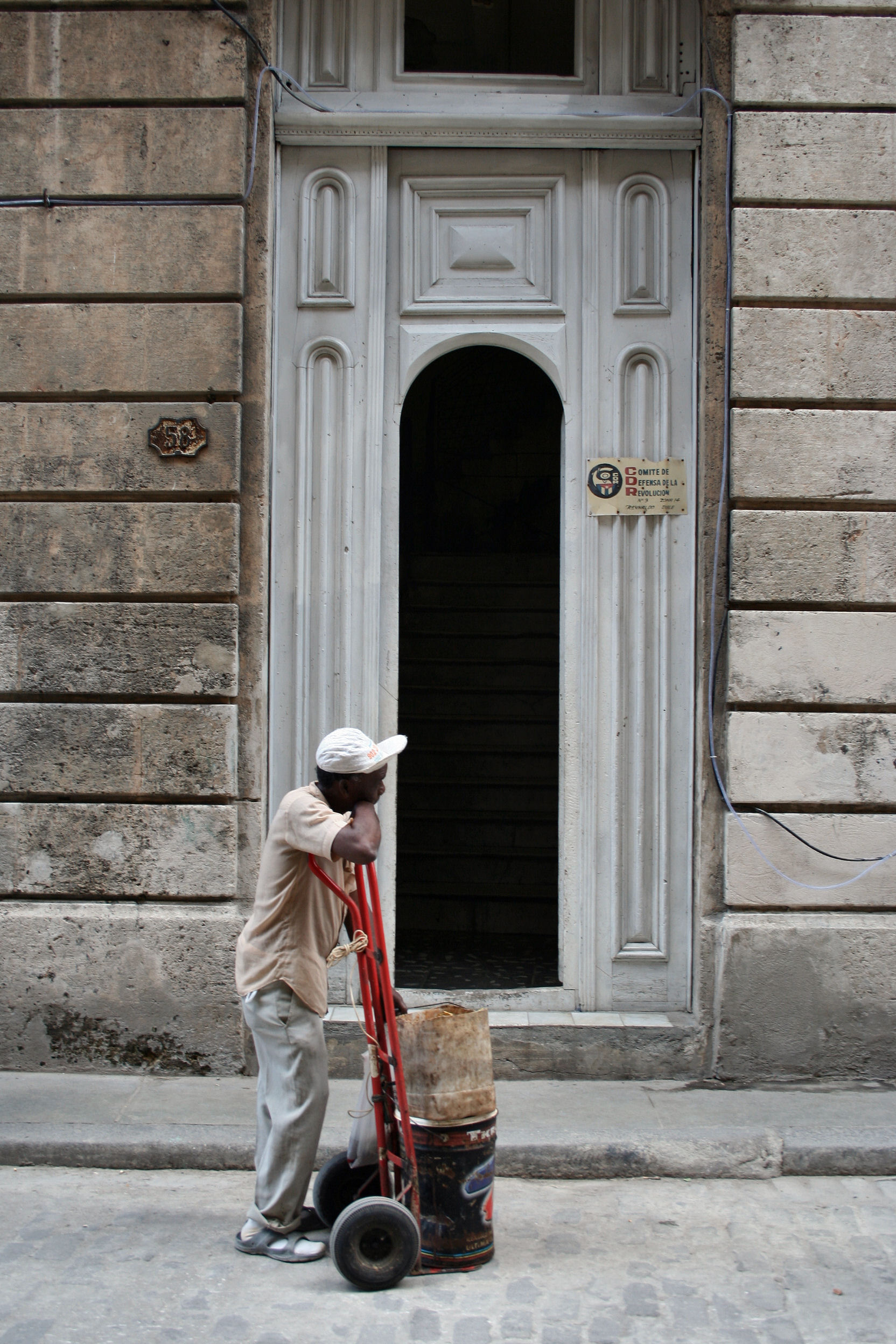 Comité de Defensa de la Revolución, Havana, Cuba